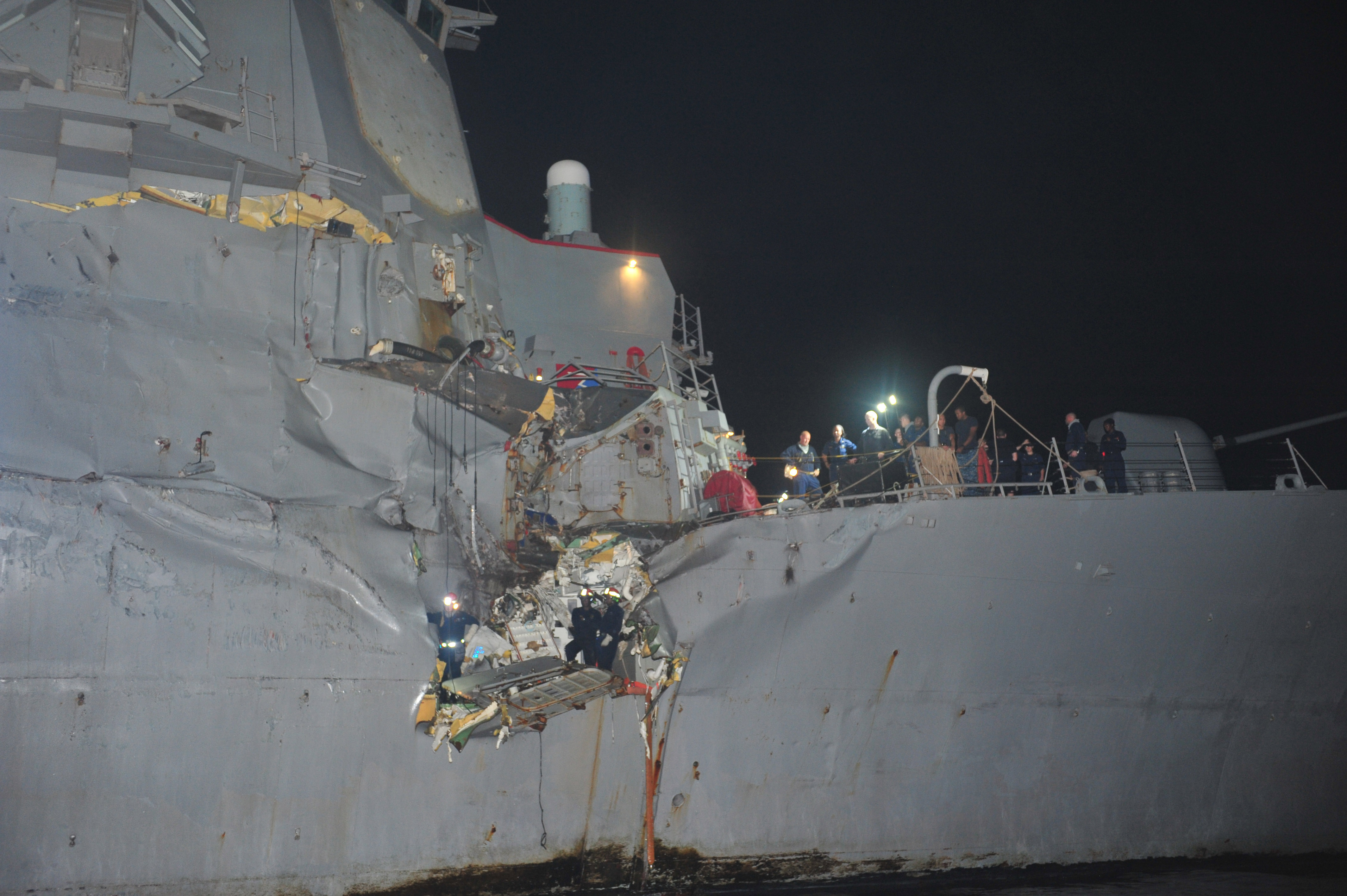 ARABIAN SEA (Aug. 12, 2012) Guided-missile destroyer USS Porter (DDG 78) is damaged in a collision with the Japanese owned bulk oil tanker M/V Otowasan in the Strait of Hormuz, Aug., 12. No personnel on either vessel were reported injured. Porter is on a scheduled deployment to the U.S. 5th Fleet area of responsibility conducting maritime security operations and theater security cooperation efforts.